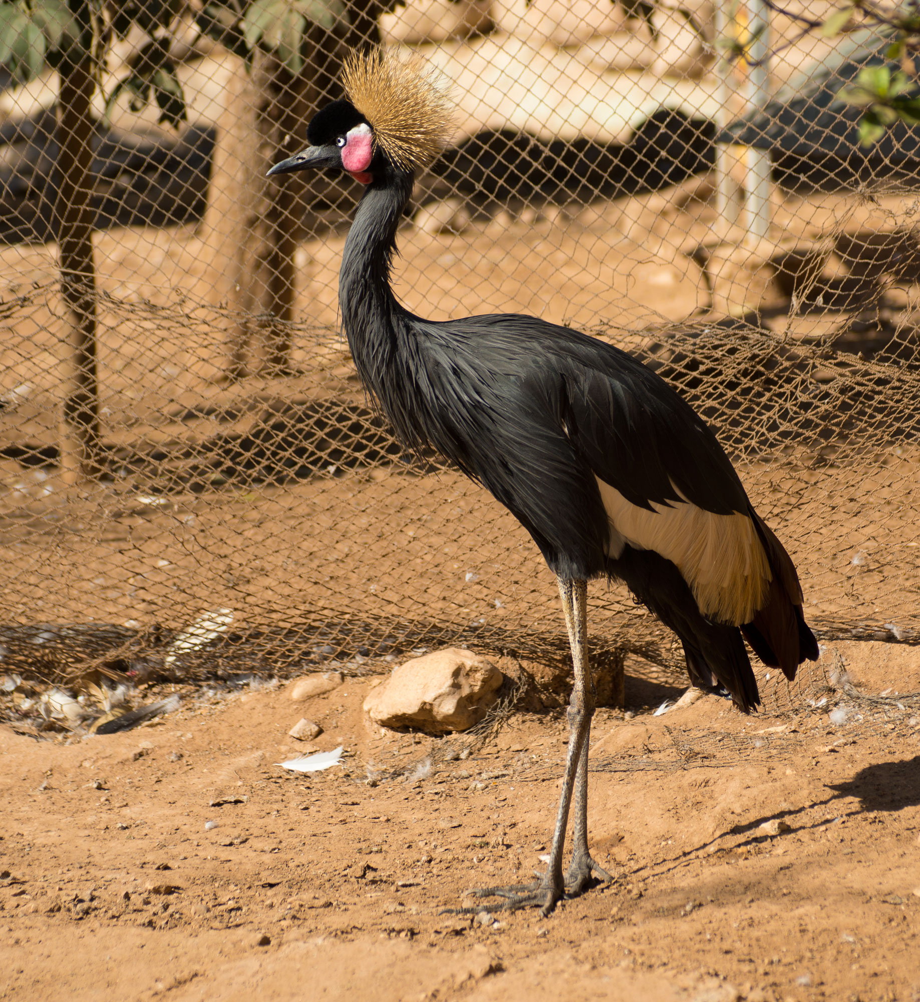 Венценосный журавль в зоопарке Агадира (Марокко)